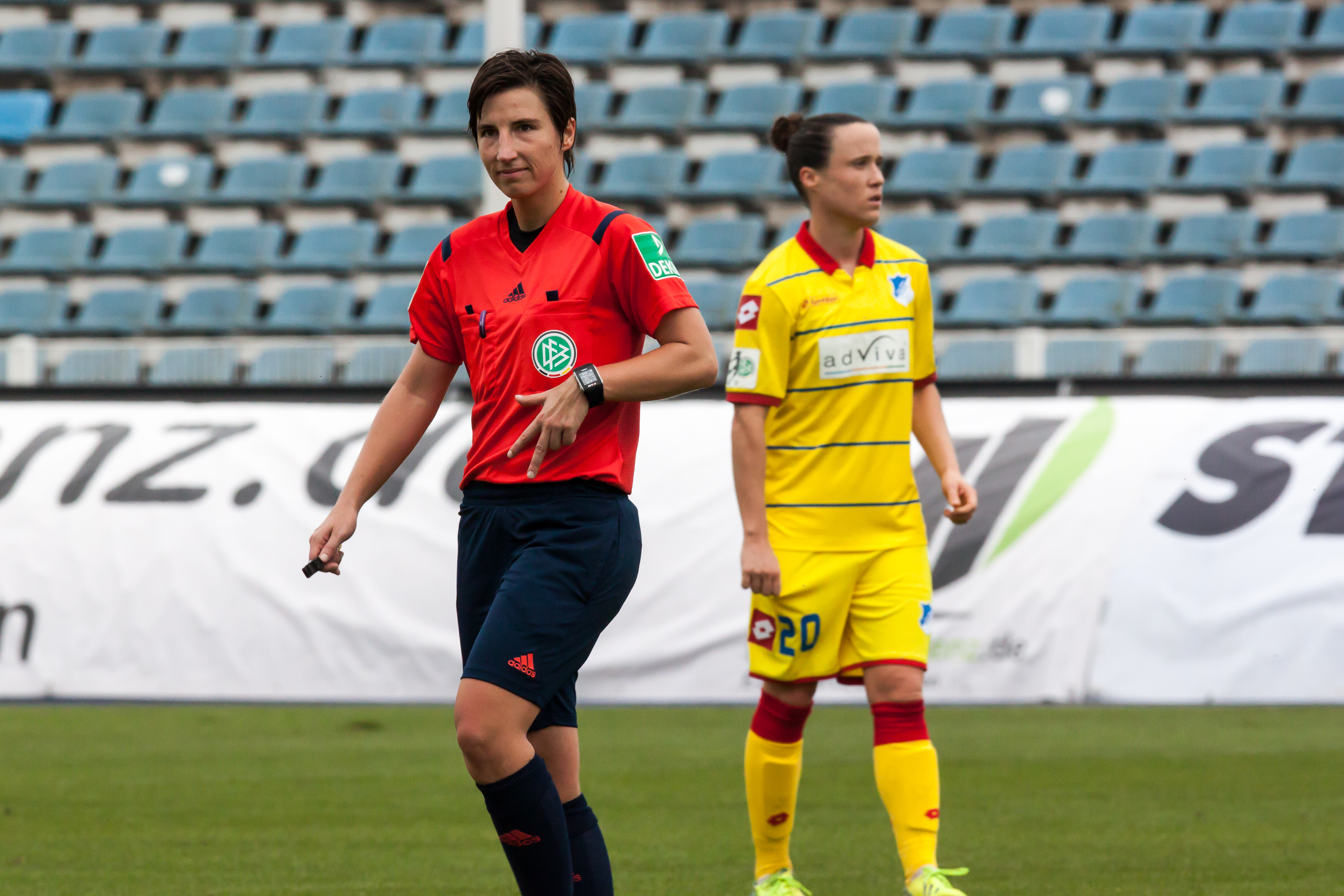 German Women Bundesliga soccer game: FF USV Jena vs. TSG 1899 Hoffenheim, 2014-10-11, at Ernst-Abbe-Sportfeld Jena.